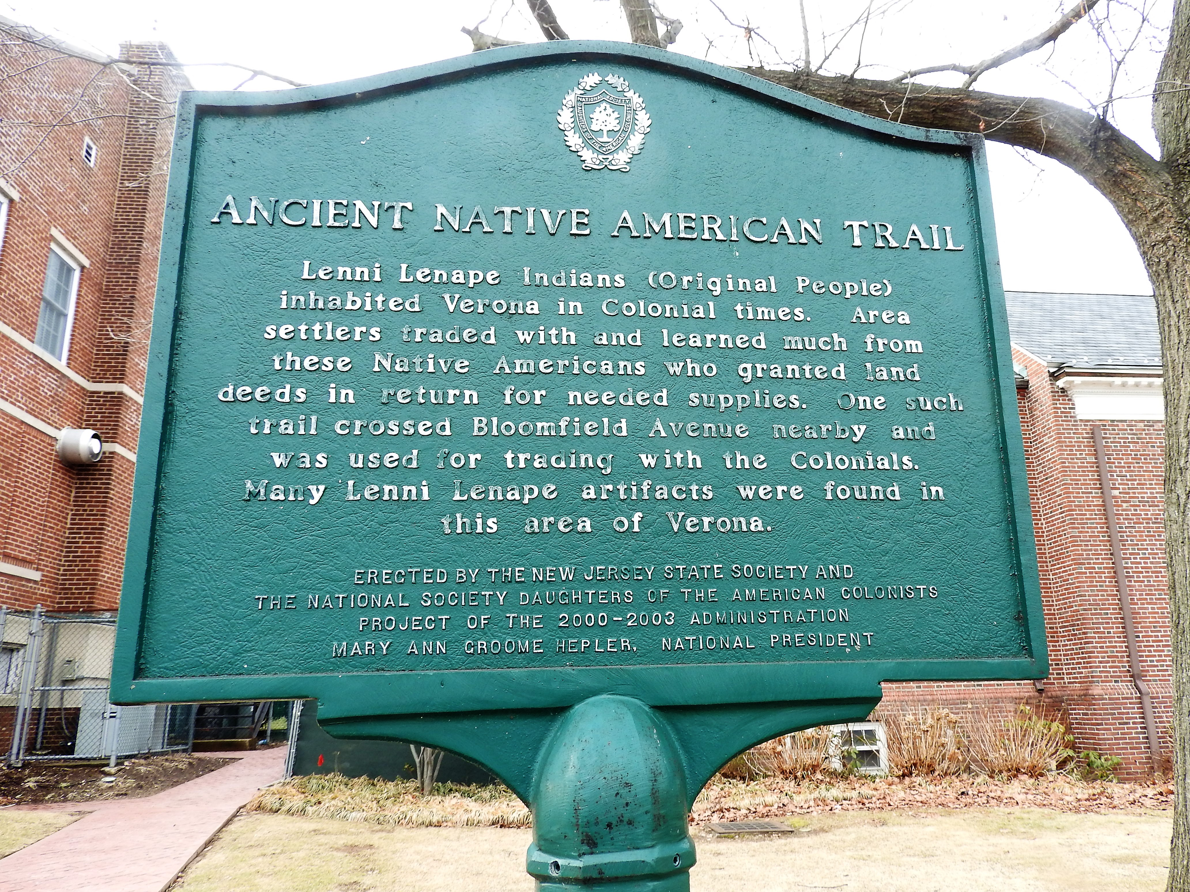 Looking west at sign in front of library